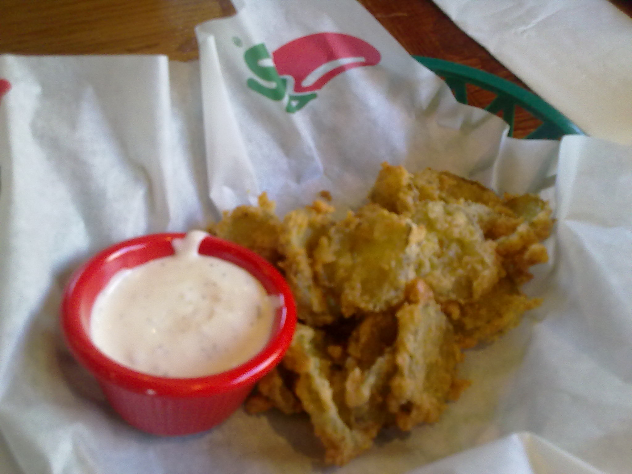 Fried pickles, an american dish in Lisbon, Portugal.